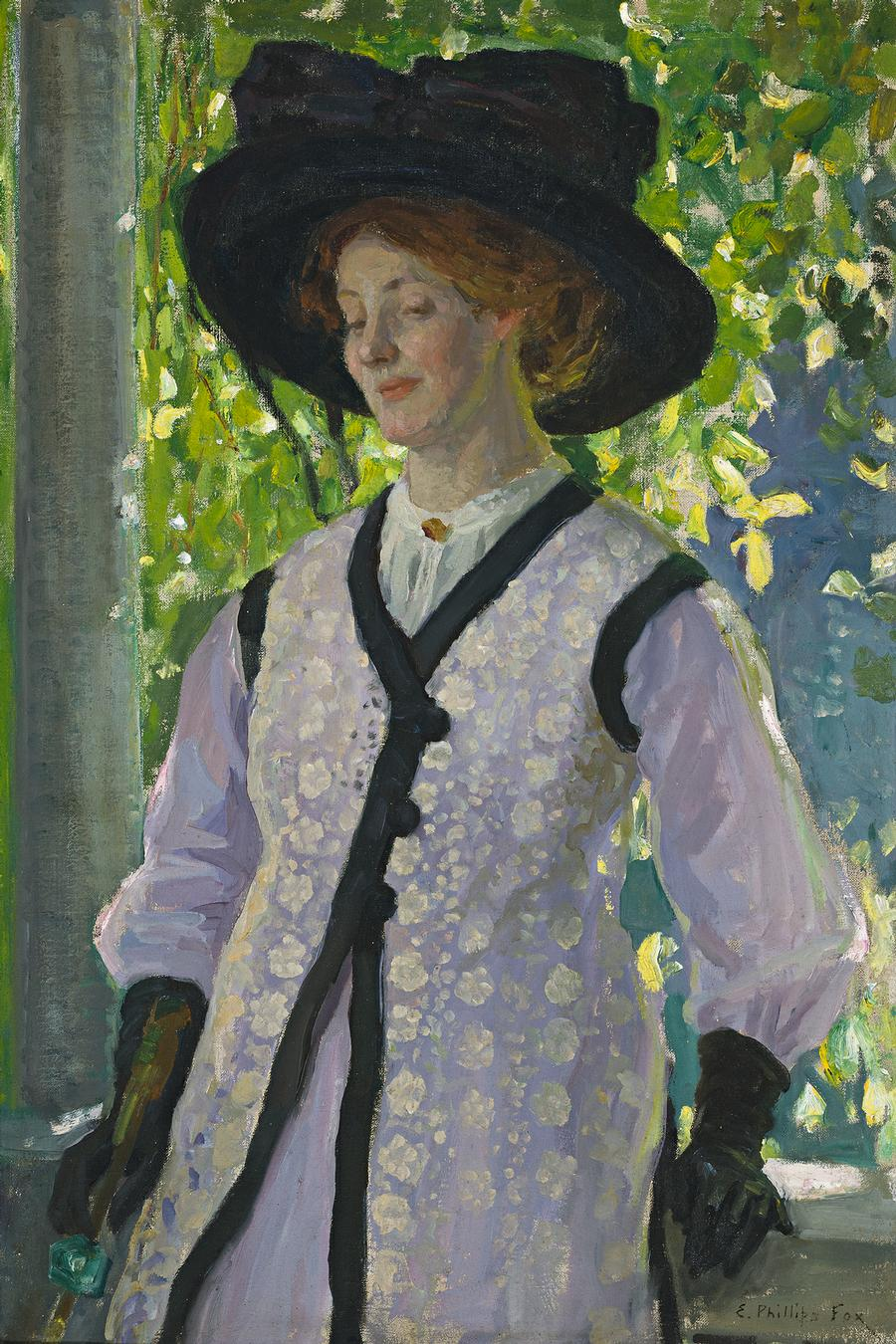 On the Balcony